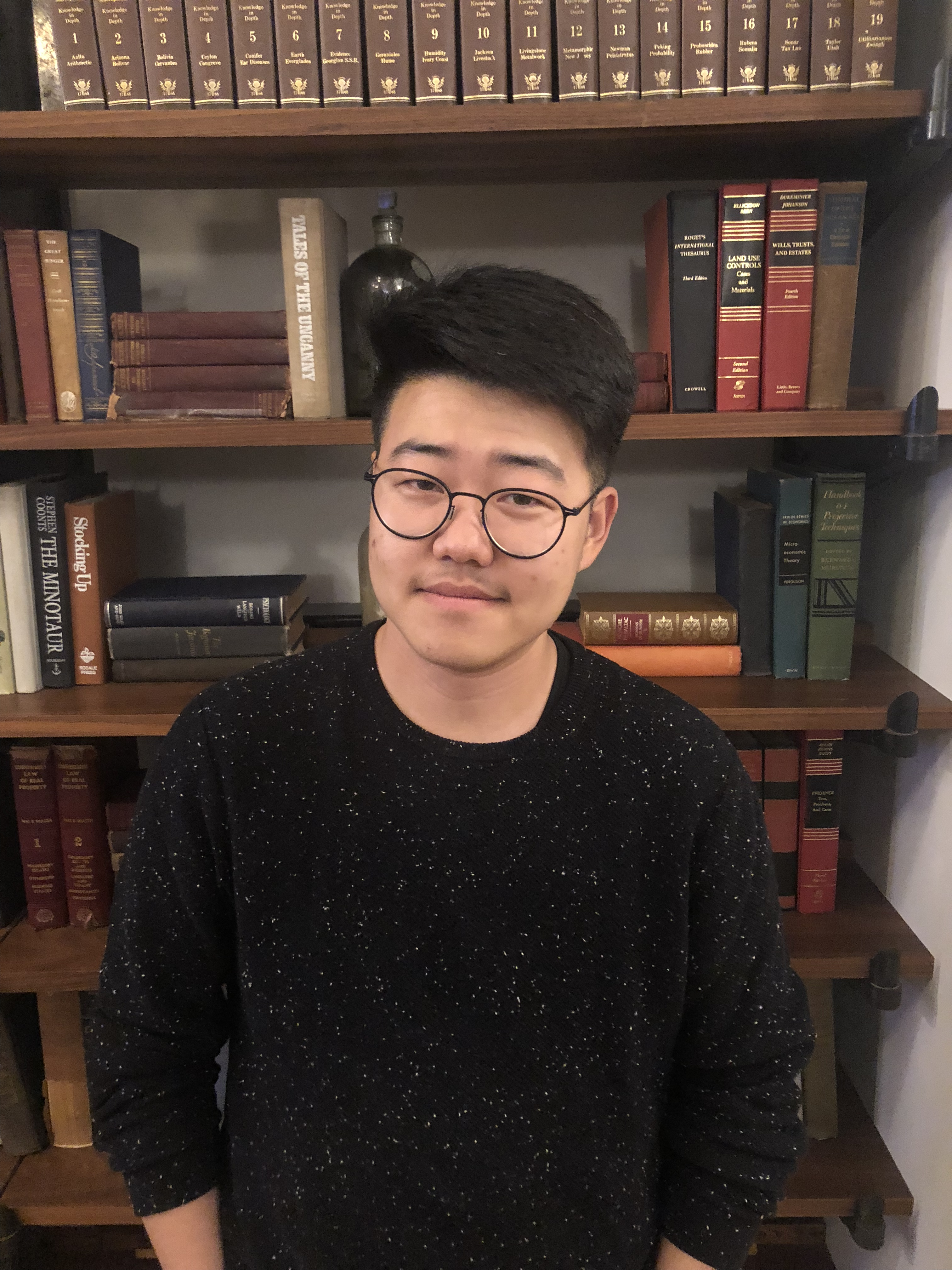 Yanyi at the Kundiman & Wikipedia NYC Edit-aThon at The Ace Hotel New York, May 2019